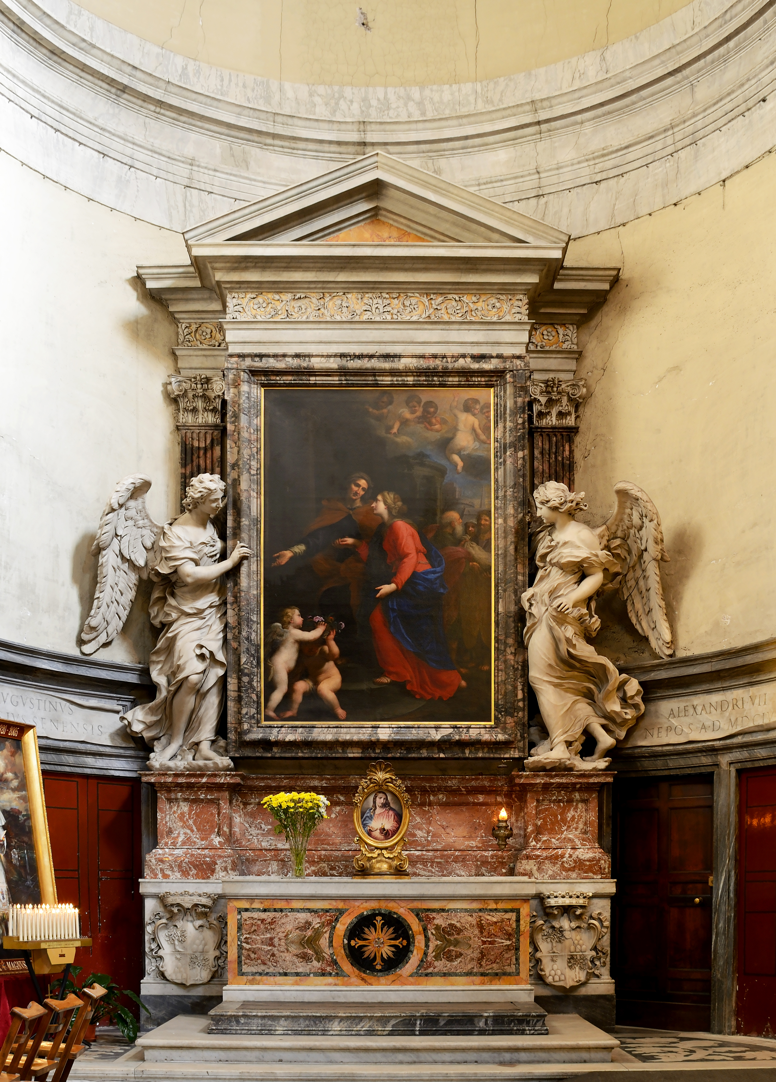 Santa Maria del Popolo (Rome) - Chapel